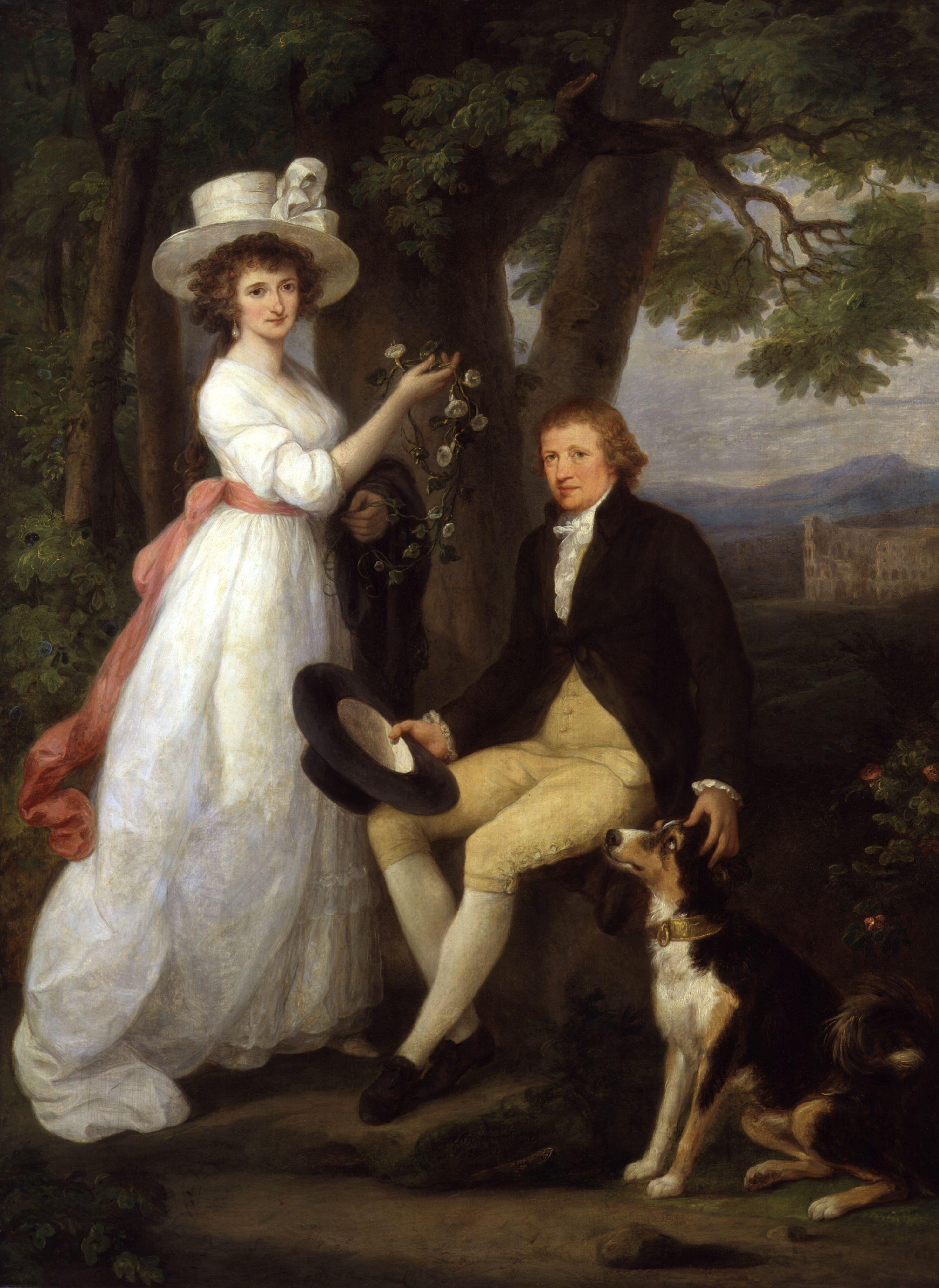 Anna Maria Jenkins; Thomas Jenkins (1722-1798), painted in oil by Angelica Kauffmann (1741-1807).